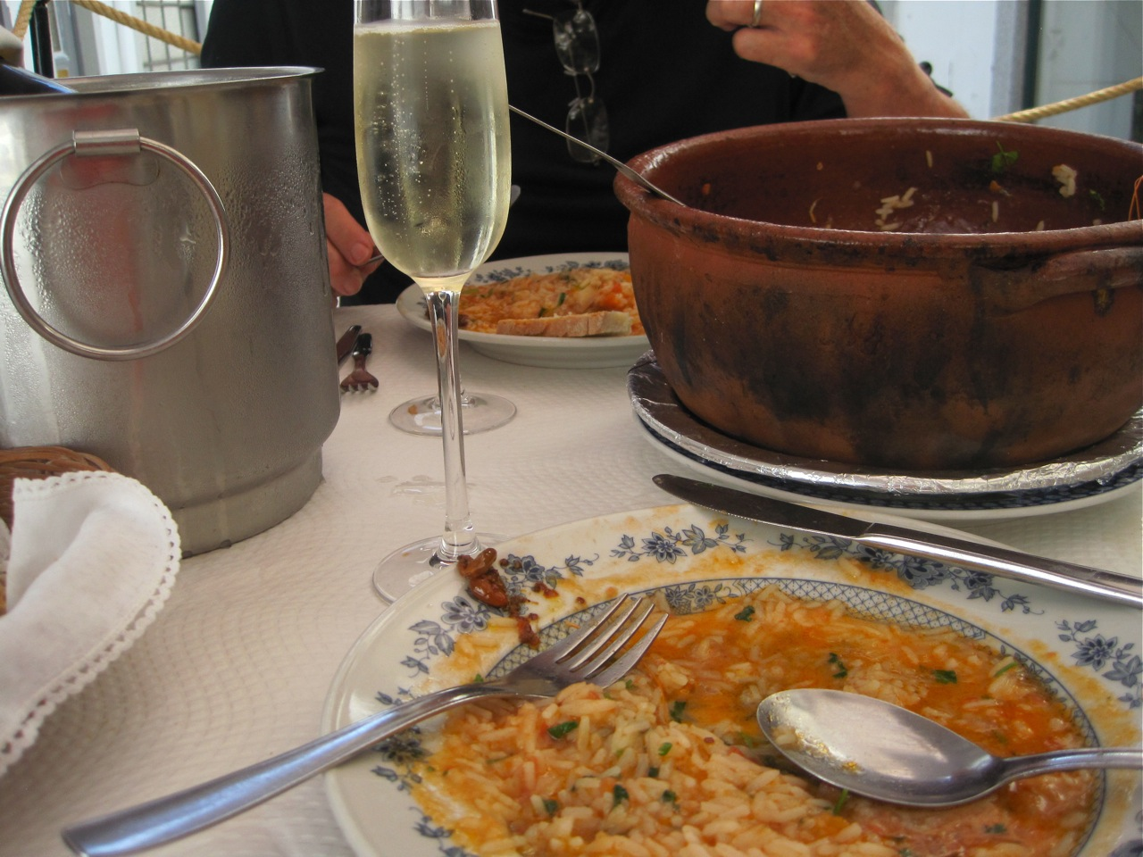 Lunch at "A Quarter to Nine" in Evora